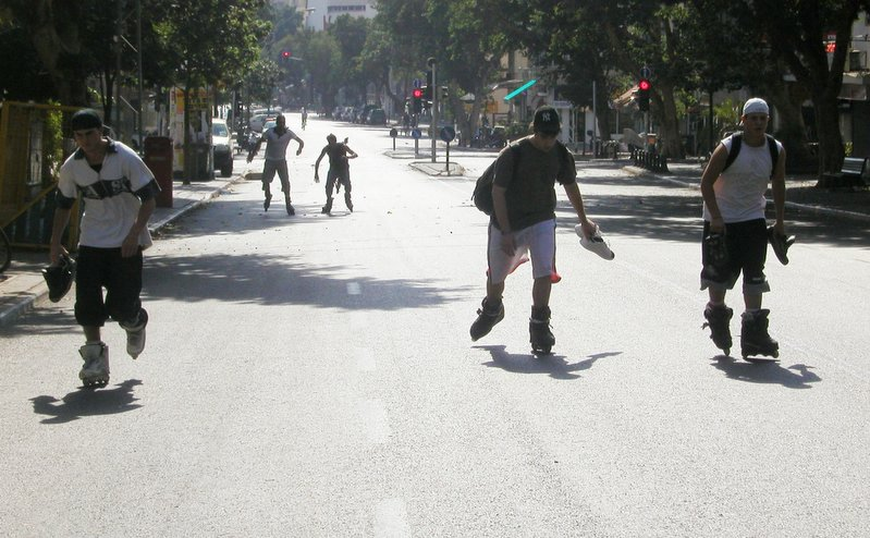 Yom Kippur day, Tel-Aviv 2005 the only day of the year that all the shops are closed and there are no vehicles on the streets. so people are enjoying riding bicycles, skateboard or whatnot, or just enjoying walking in the middle of the road, just because they can.